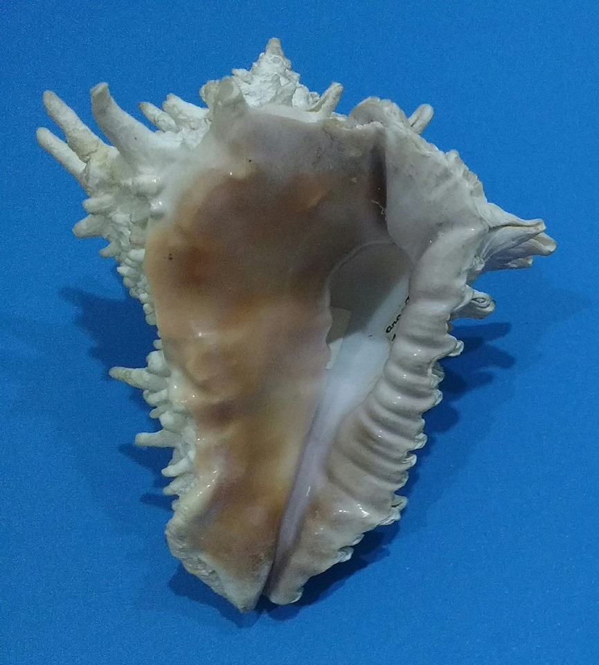 A shell of the marine gastropod mollusk Vasum cassiforme (Kiener, 1840)[1] collected on May 10, 1985 in Aracati, Ceará, Brazil. Underside view.